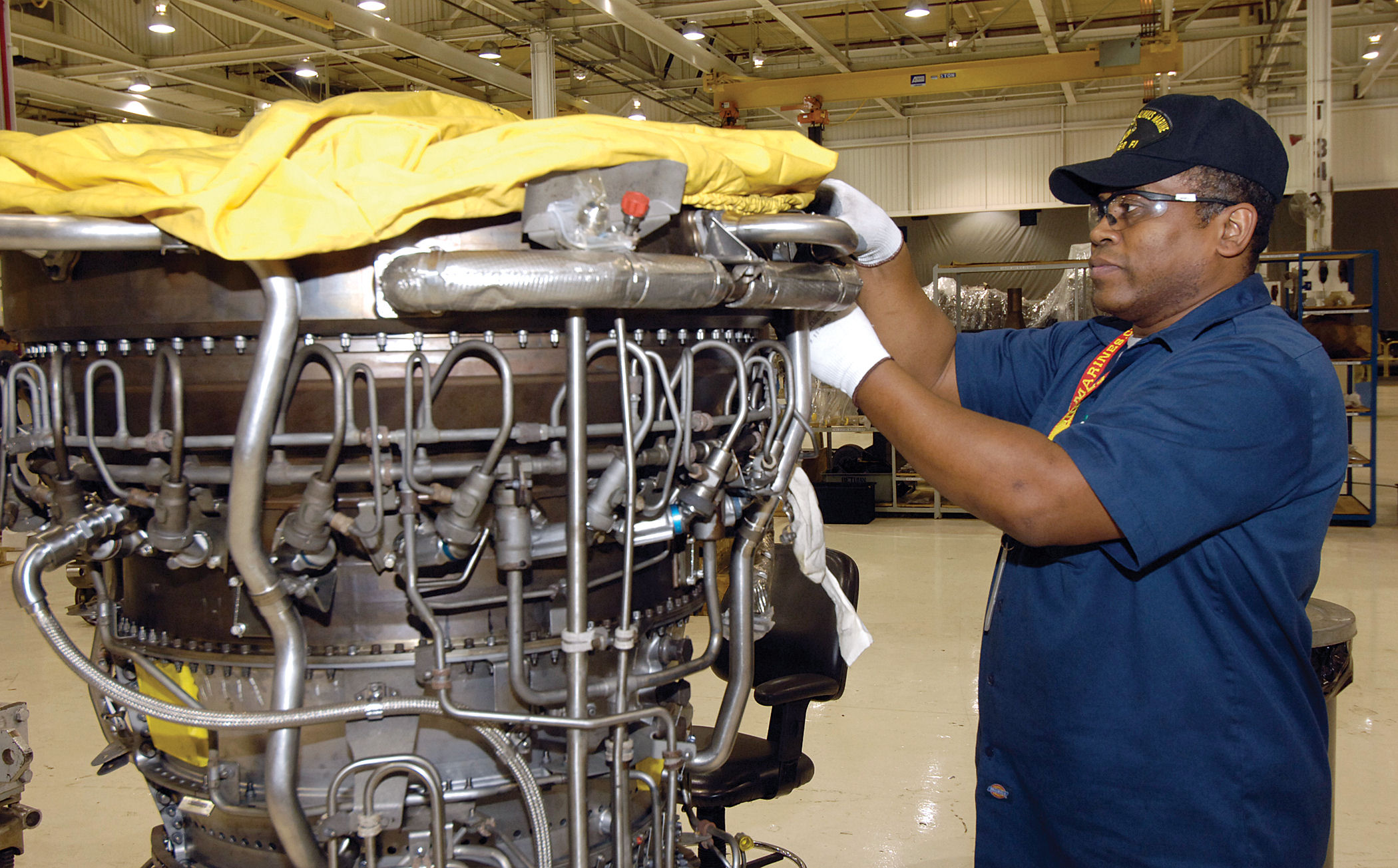 Jet engine mechanic James Nesbit assembles an F108 core in their new Bldg. 9001 area. (Air Force photos by Margo Wright)